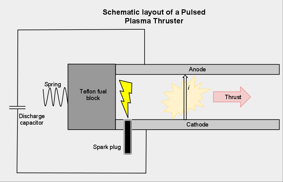 This image shows a schematic layout of a Pulsed Plasma Thruster